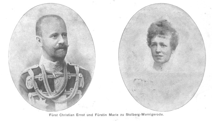 Photo of Christian-Ernst zu Stolberg-Wernigerode (1864-1940), German nobleman, and his wife Marie.